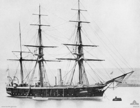 Starboard bow view of the screw sloop HMS Penguin.